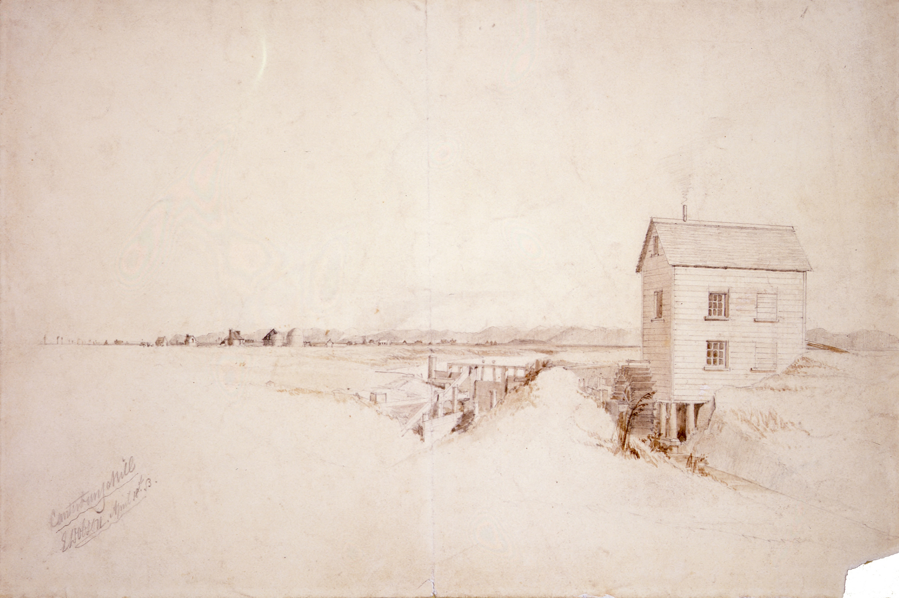 A mill building with mill-wheel beside a stream, with the other buildings of Fendalton and the Port Hills in the background. Shows Daniel Inwood's first flourmill at Christchurch, on the corner of Fendalton Road and the east side of Straven Road. Pencil, sepia ink and wash by Edward Dobson.